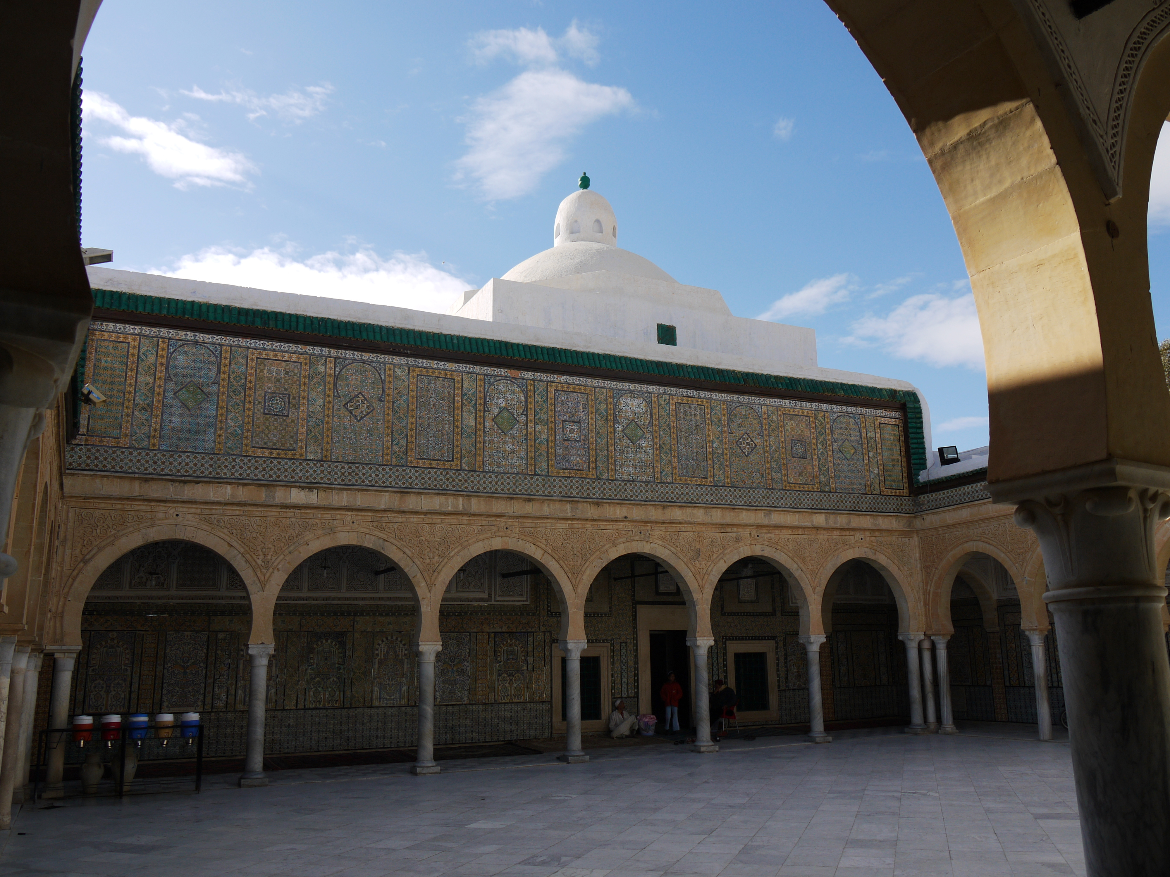 Zaouia of Sidi Sahab, also known as Mosque of the Barber, Kairouan.